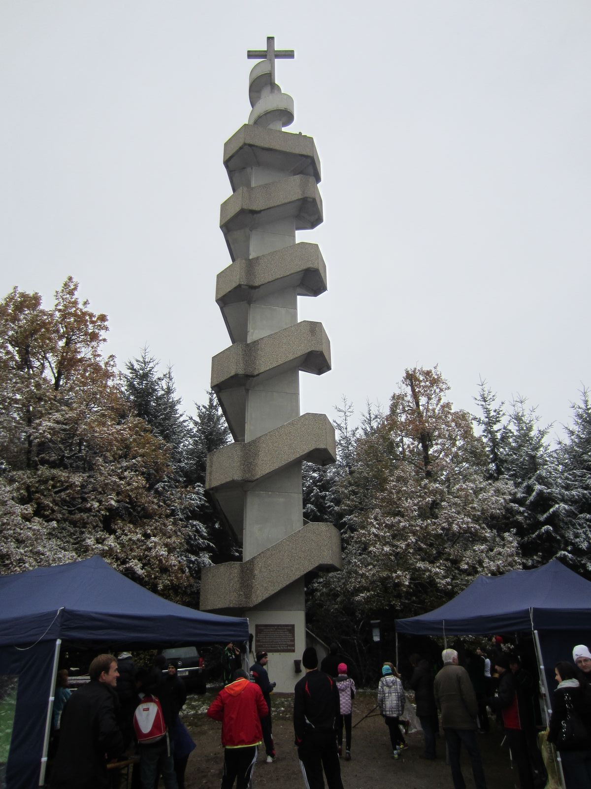 Papstwarte near Horn/Austria